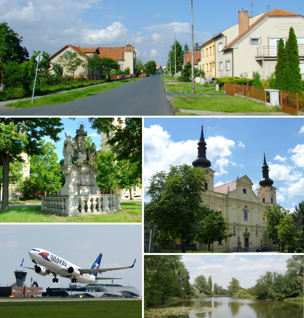 Boeing 737-800 OK-TVF at Brno airport